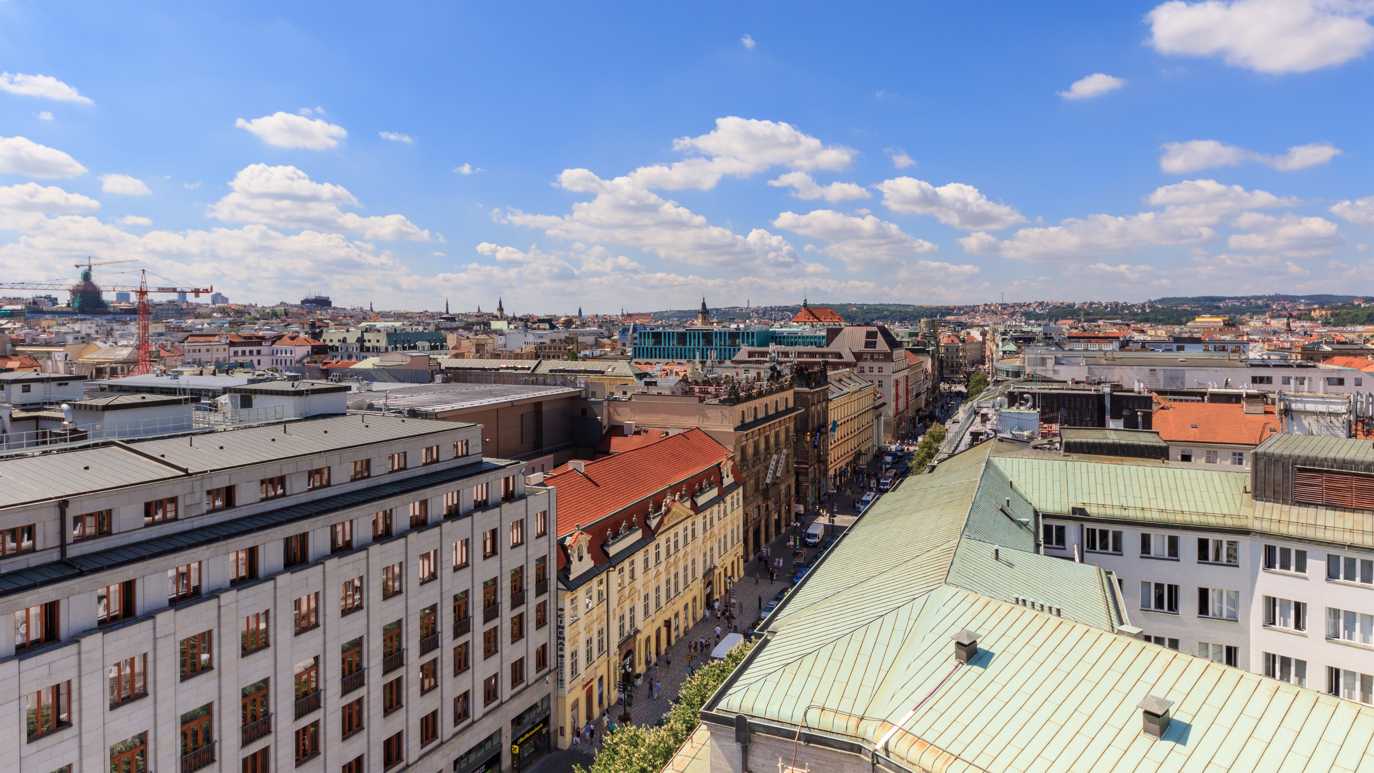 View from Powder Tower in Prague (Czech Republic)